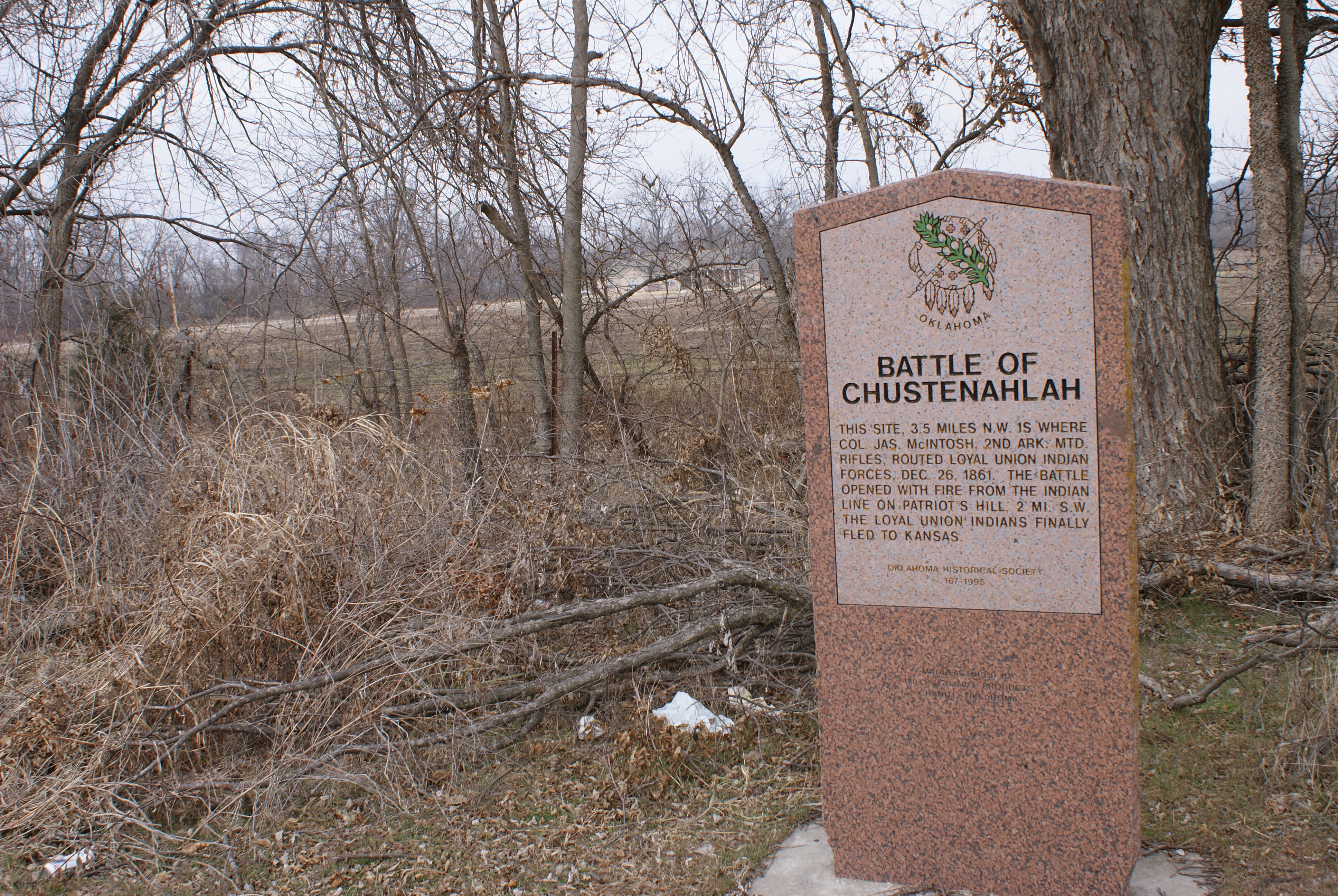 Osage County historical marker where Col. Jas McIntosh routed loyal Union Indian forces, Dec. 26, 1861. The Loyal Indians eventually fled to Kansas.